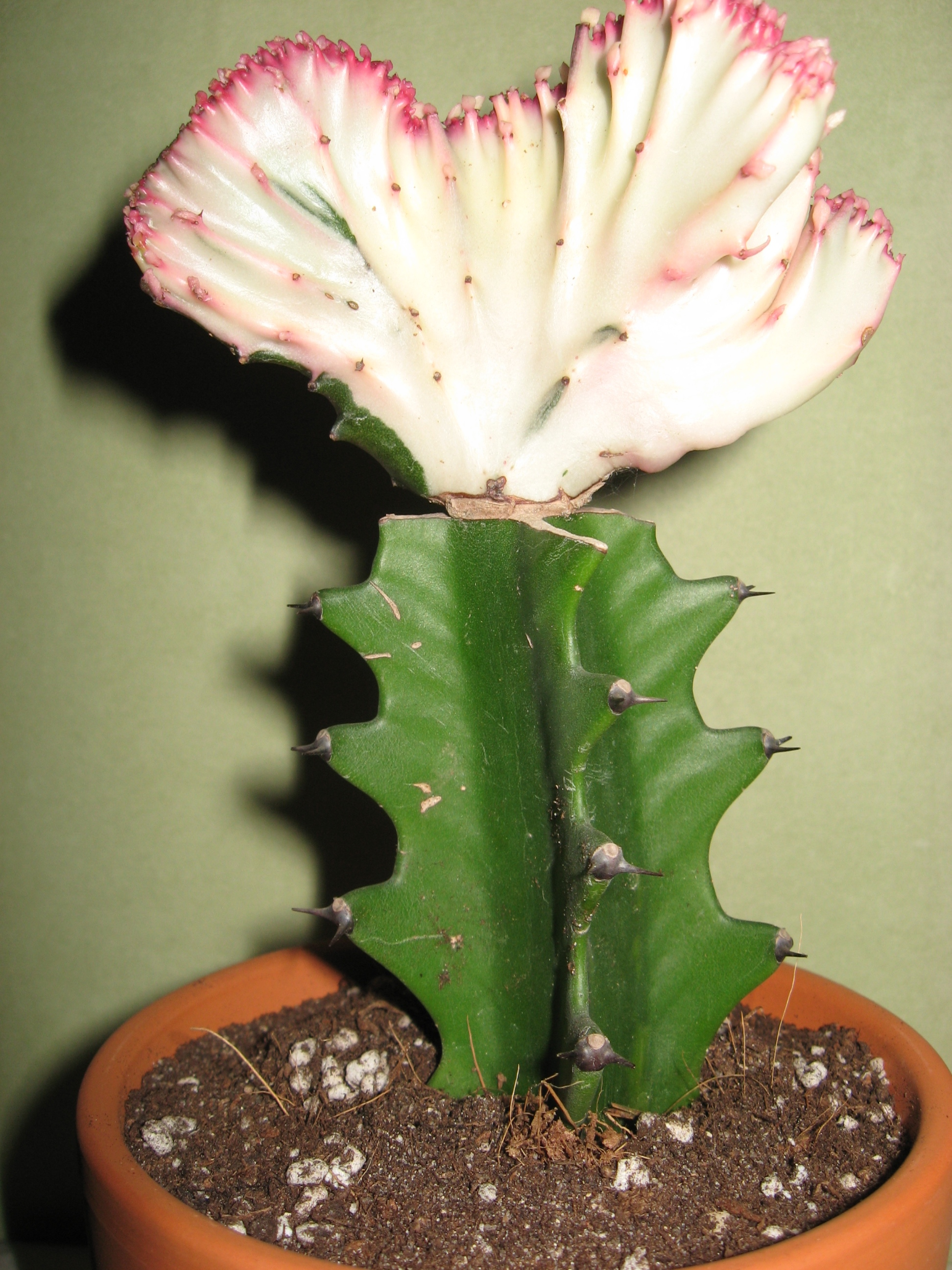 Plant Euphorbia lactea cristata form. Photo author Jüri Goltsov.